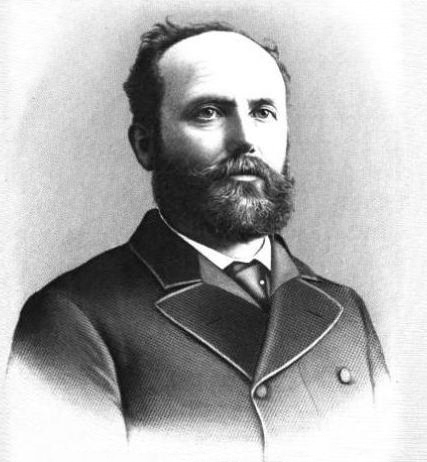 James B. Metcalfe (I believe James Bard Metcalfe, and that he's also connected to the history of Sedro-Woolley, Washington: see James Bard Metcalfe—Washington Territory Attorney General and P.A. Woolley's advance man, Skagit River Journal of History & Folklore, posted Nov. 27, 2003, and updated Sept. 1, 2007), born 1846 in Mississippi; fought for south in Civil War; became a lawyer in San Francisco and later in Seattle, Washington. In the latter city, he was also a cable car company promoter. Frederic James Grant calls him "General Metcalfe"; not clear when he would have earned that title, he was not a civil war general.